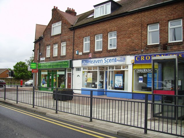 Kenton Lane Shops